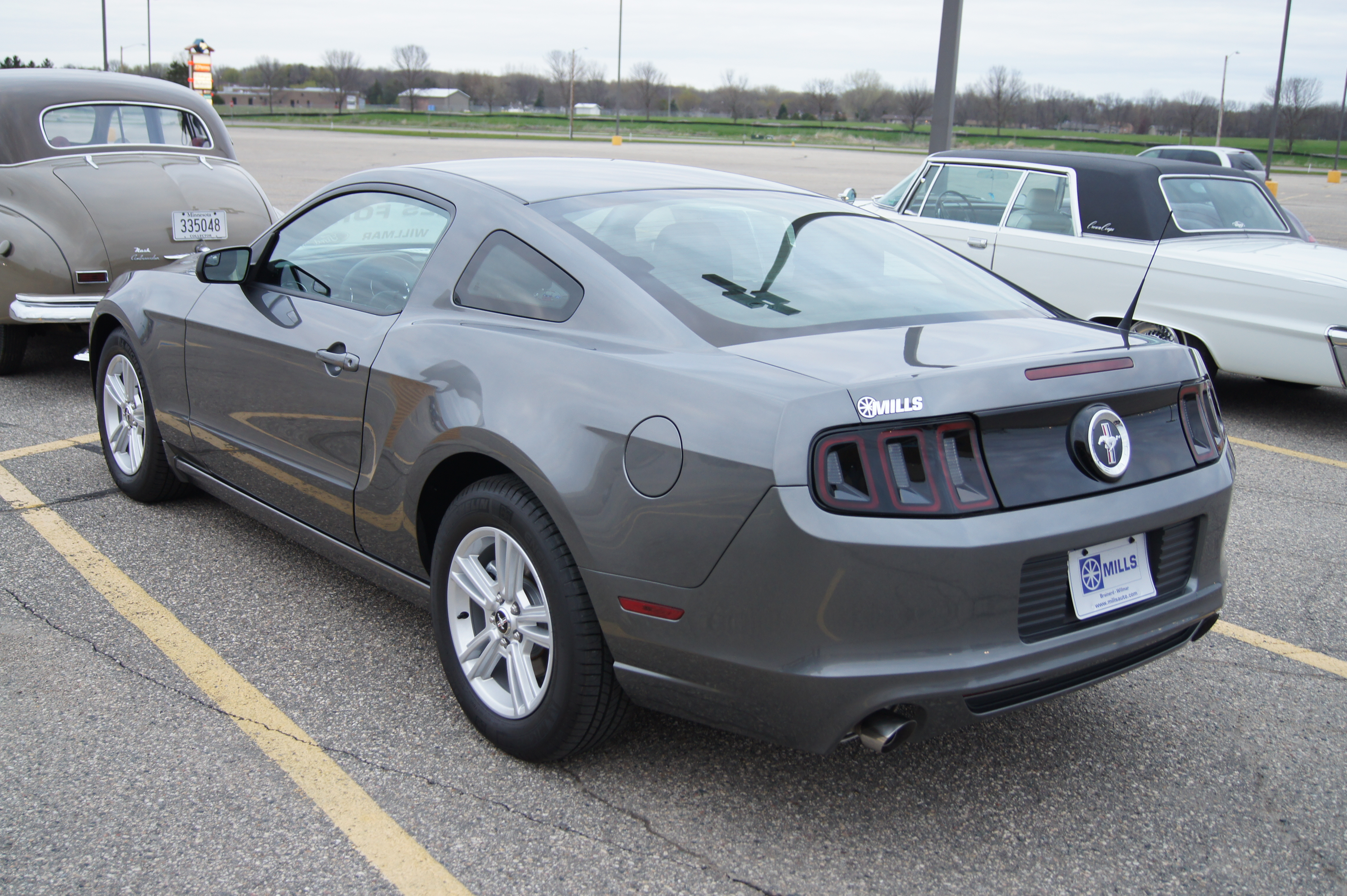 Willmar Car Club 2014 Kandi Mall Display